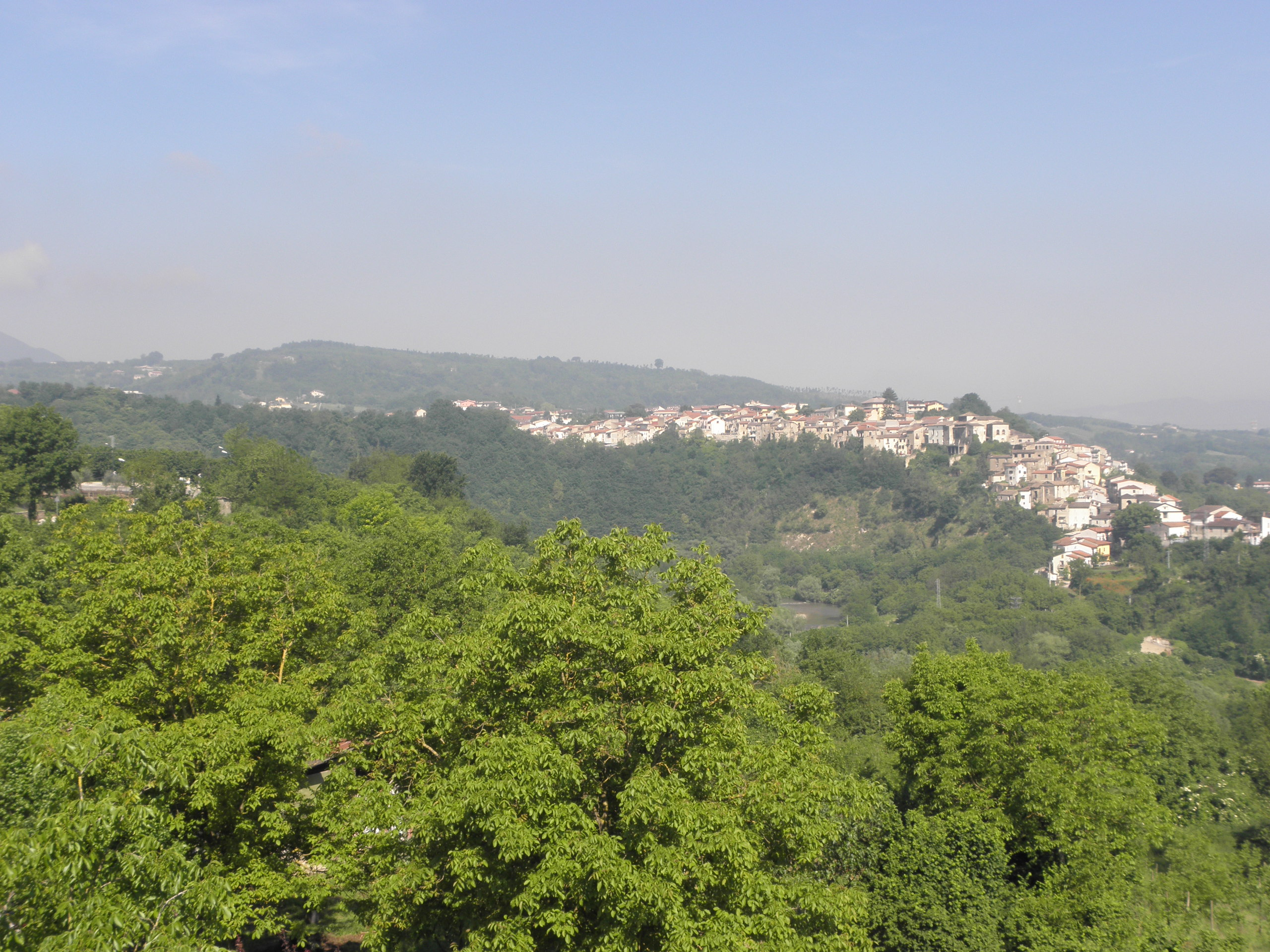 Prata Principato Ultra seen from the other side of the Sabato river.